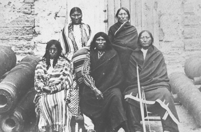 Apache prisoners at Castilo de San Marcos, St. Augustine, Florida.